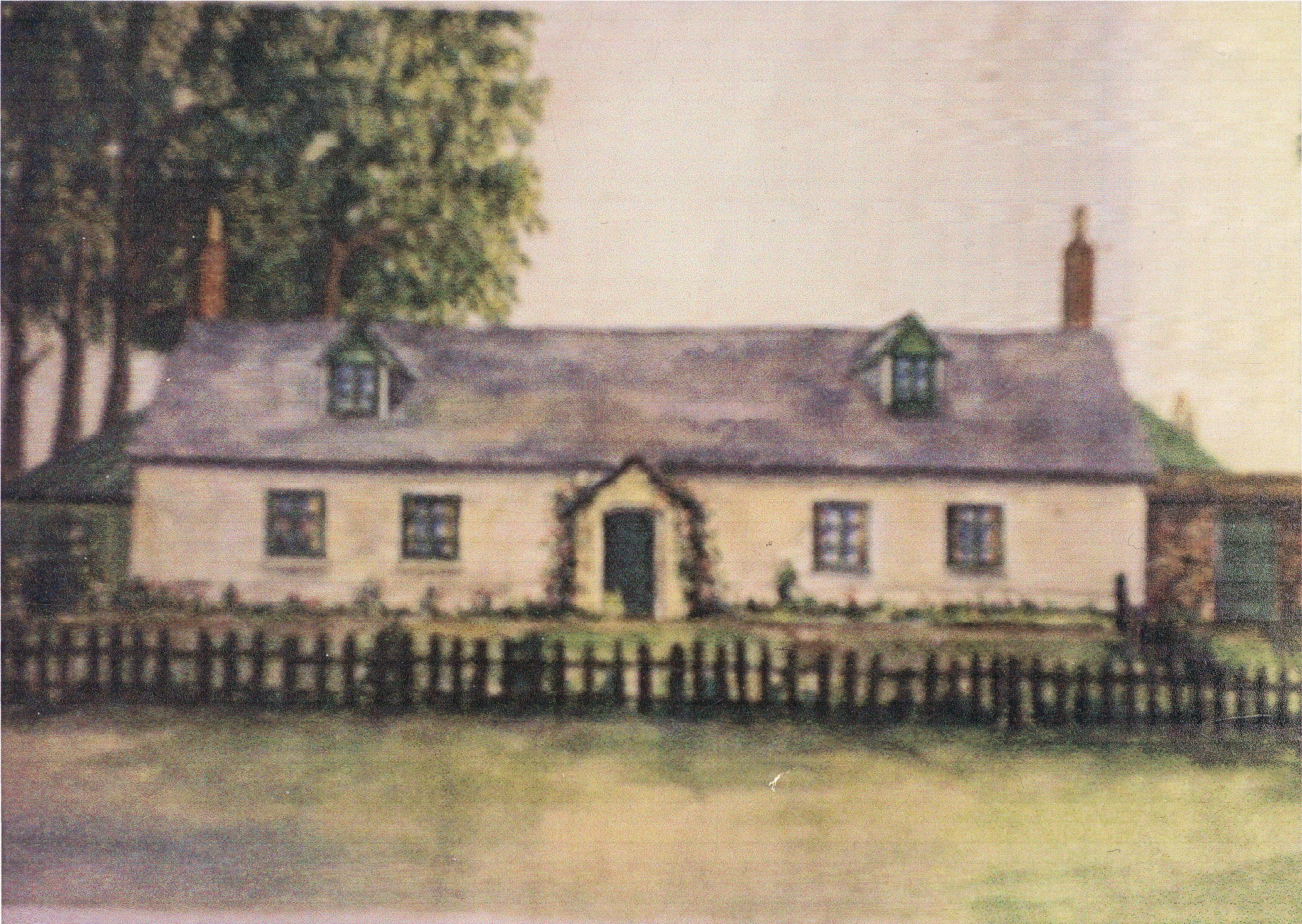 Painting of Ringmoor Cottages, owned by Wendy Steel (b. 1940) who lived there, one of several painted by Wolfgang ?, a PoW (based at Guy's Marsh) who helped on the farm.